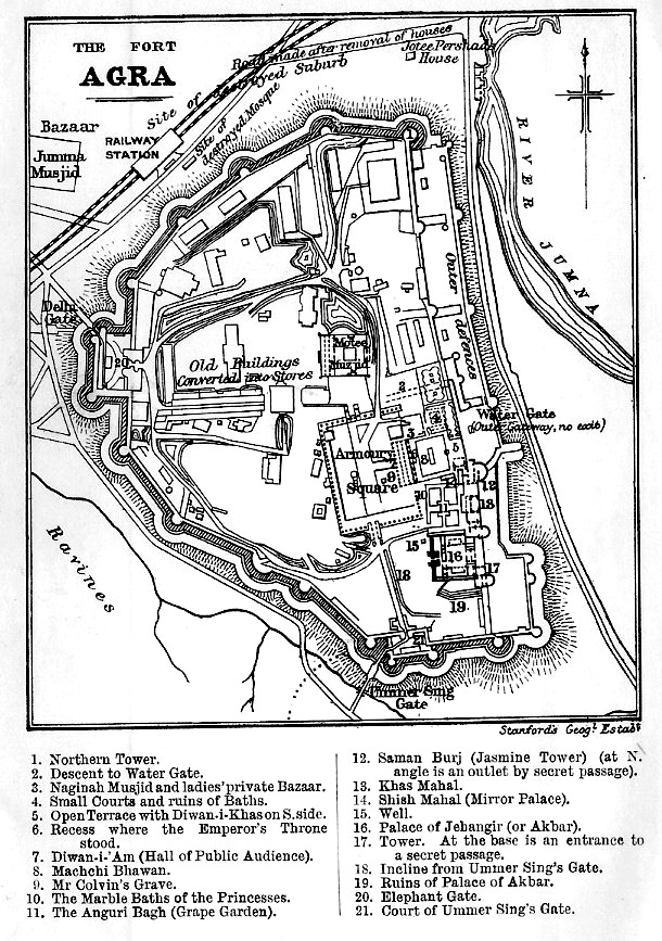 Plan of the Red Fort, Agra